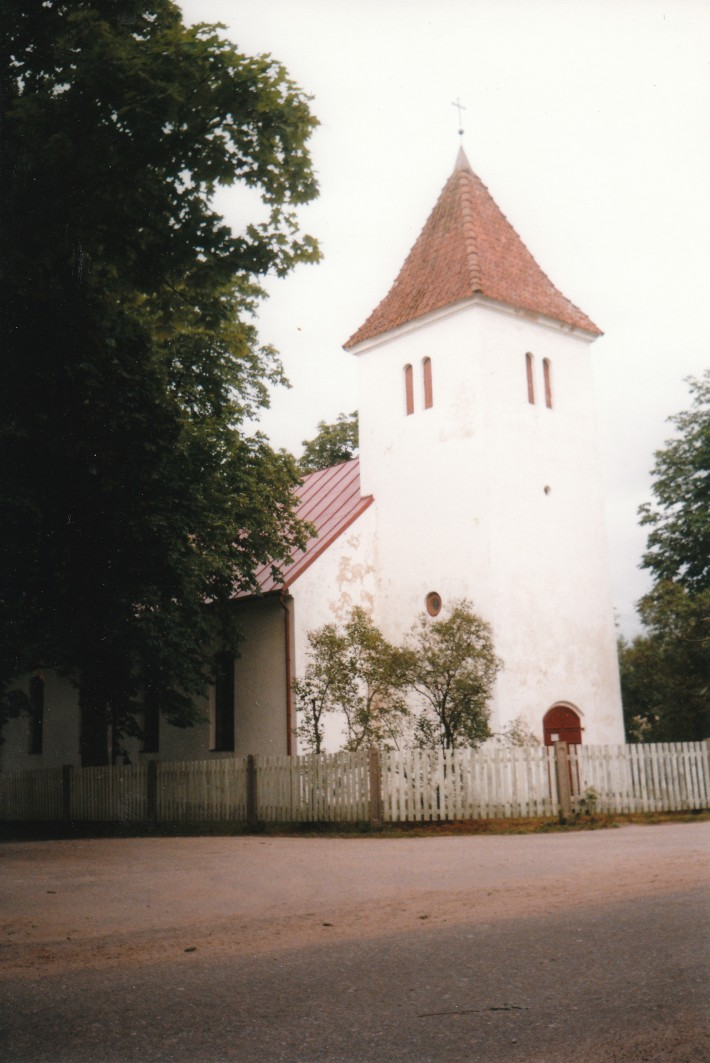 Lamiņi Saint George Roman Catholic ChurchLatviešu: Lamiņu Svētā Jura Romas katoļu baznīca